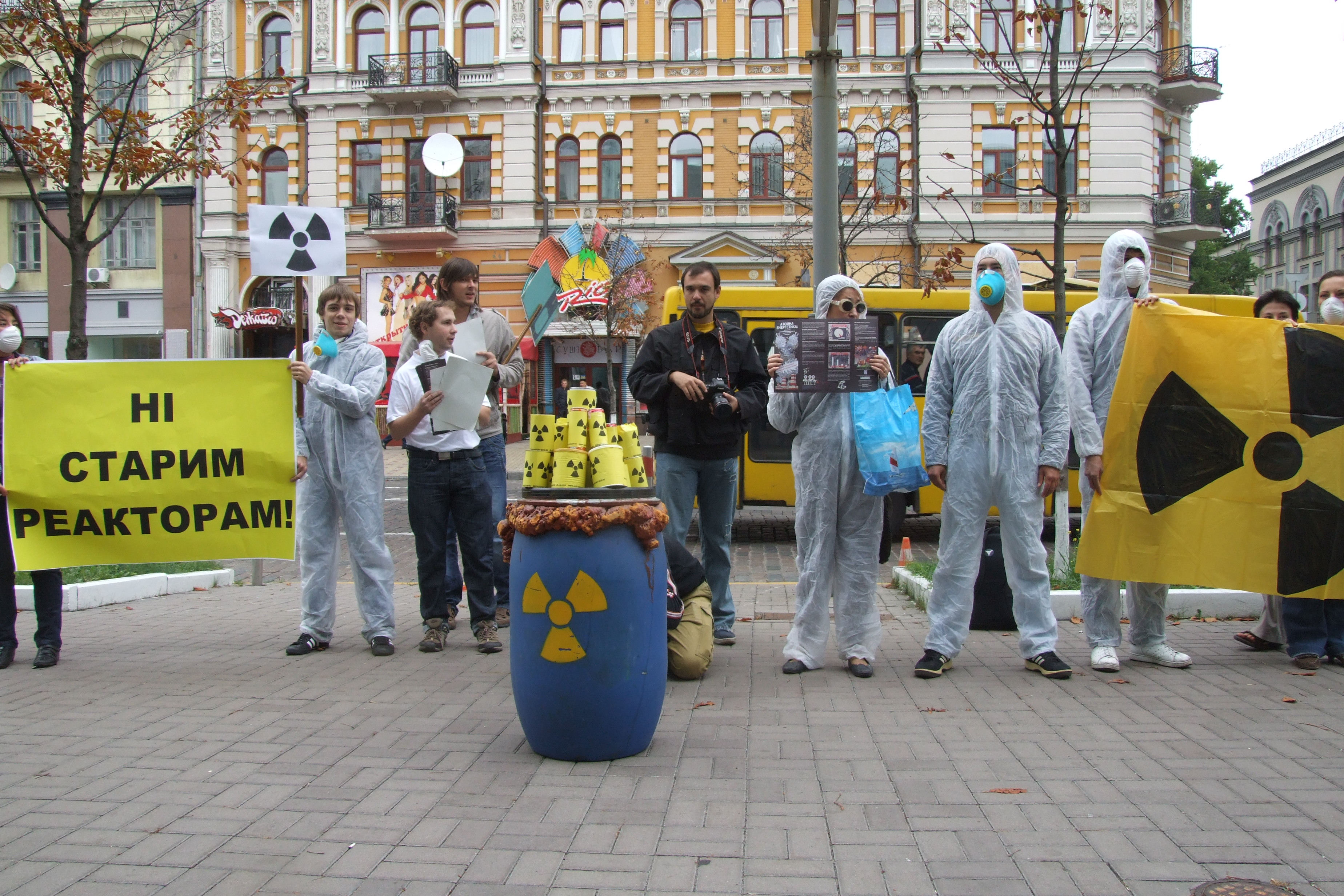 The Natsional'nyj Ekolohychnyj Centr Ukrainy (National Ecological Tsentre of Ukraine) organized a meeting in front of the German embassy in Kiev to support the big anti-nuclear demonstration in Berlin . Police forbid to leave the “nuclear waste” after the end of the action. The banner left in the picture says "No to old reactors".